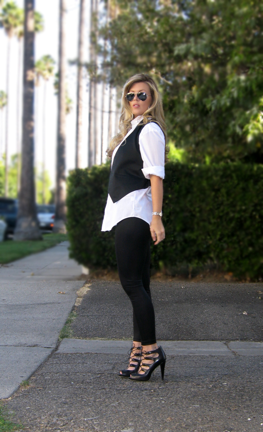 Tuxedo shirt with waistcoat and leggings.